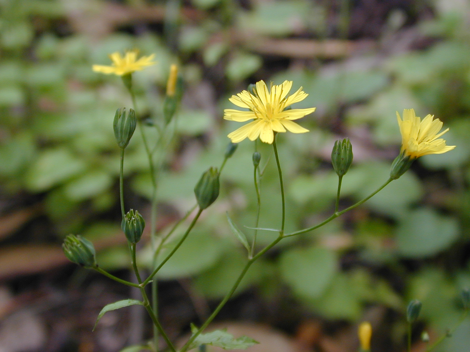 Lapsana communis (flowers). Location: Maui, Polipoli